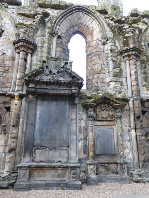 Holyrood Abbey monuments